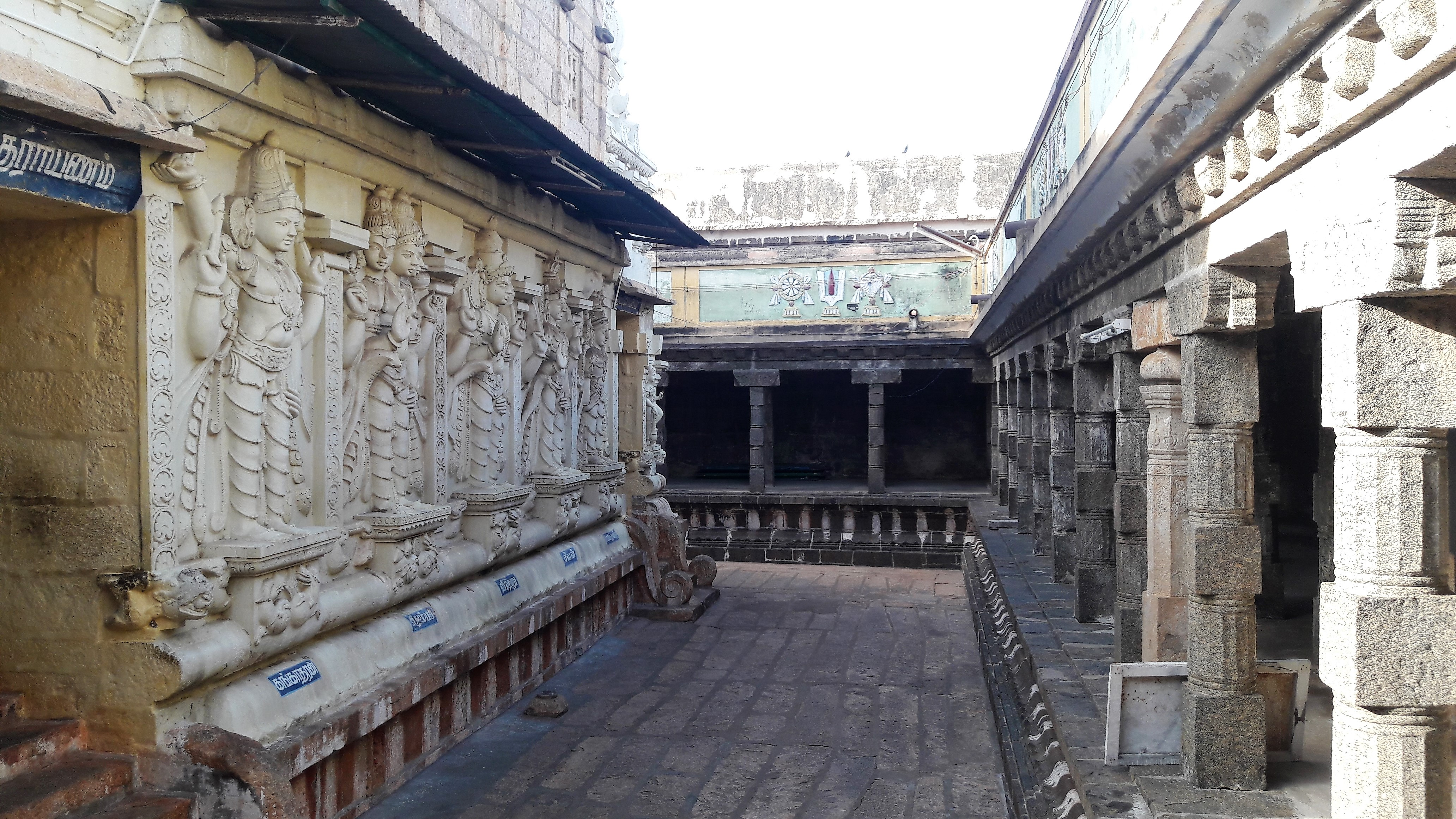 Pundarikakshan Perumal temple, Thiruvellarai